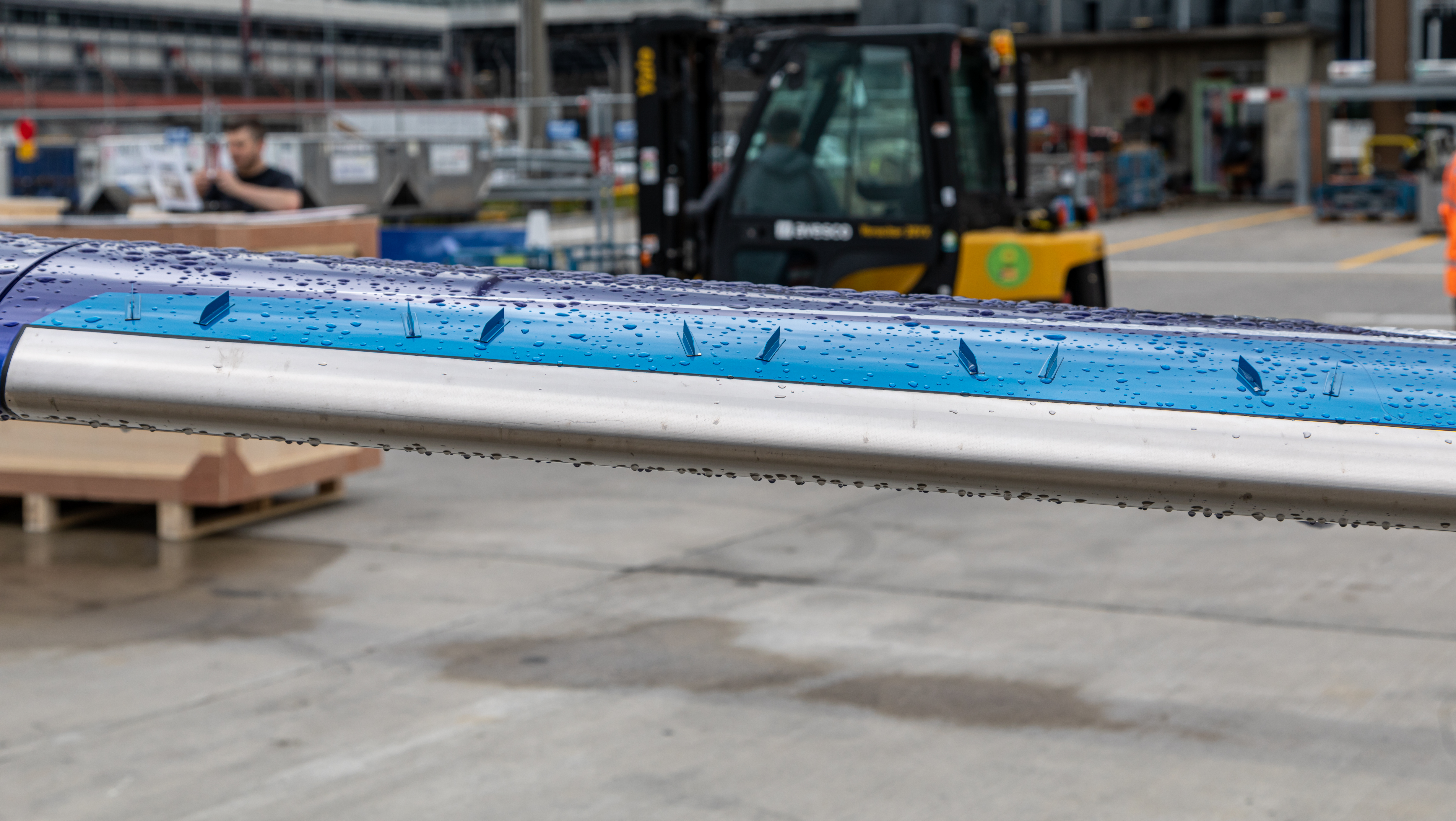 Wing of a Diamond DA62 at EBACE 2019, Palexpo, Switzerland